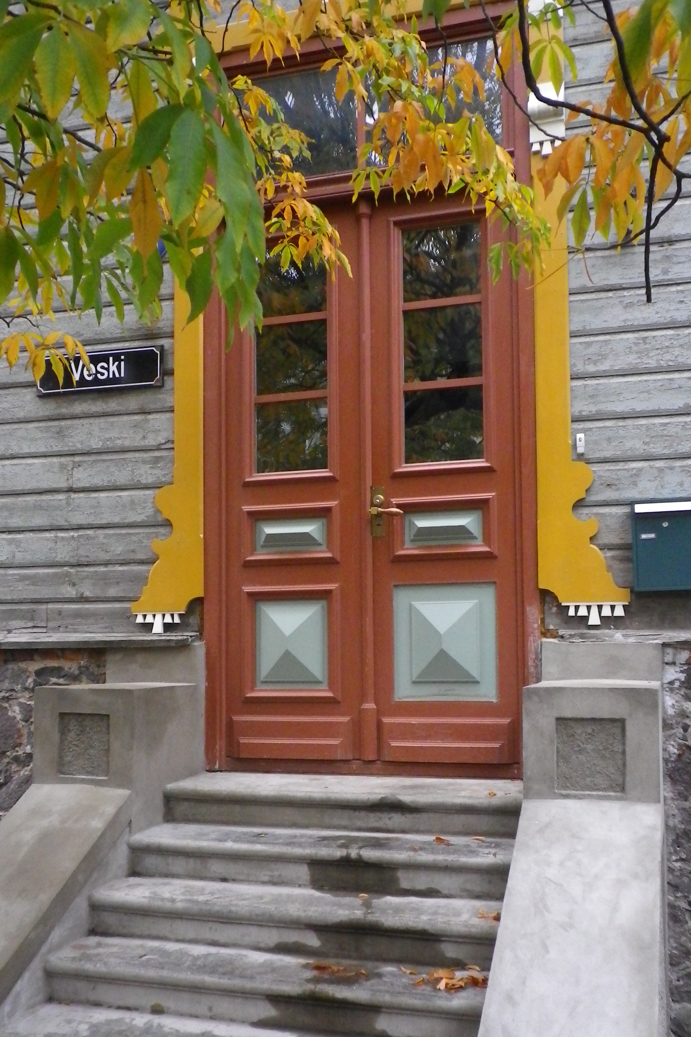 Door of 45 Veski St, Tartu